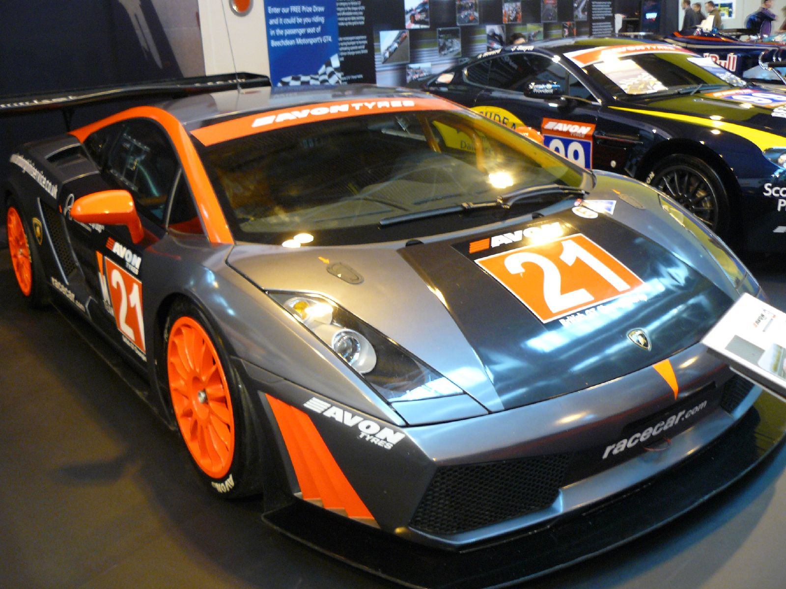 Team Modena's Lamborghini Gallardo GT3